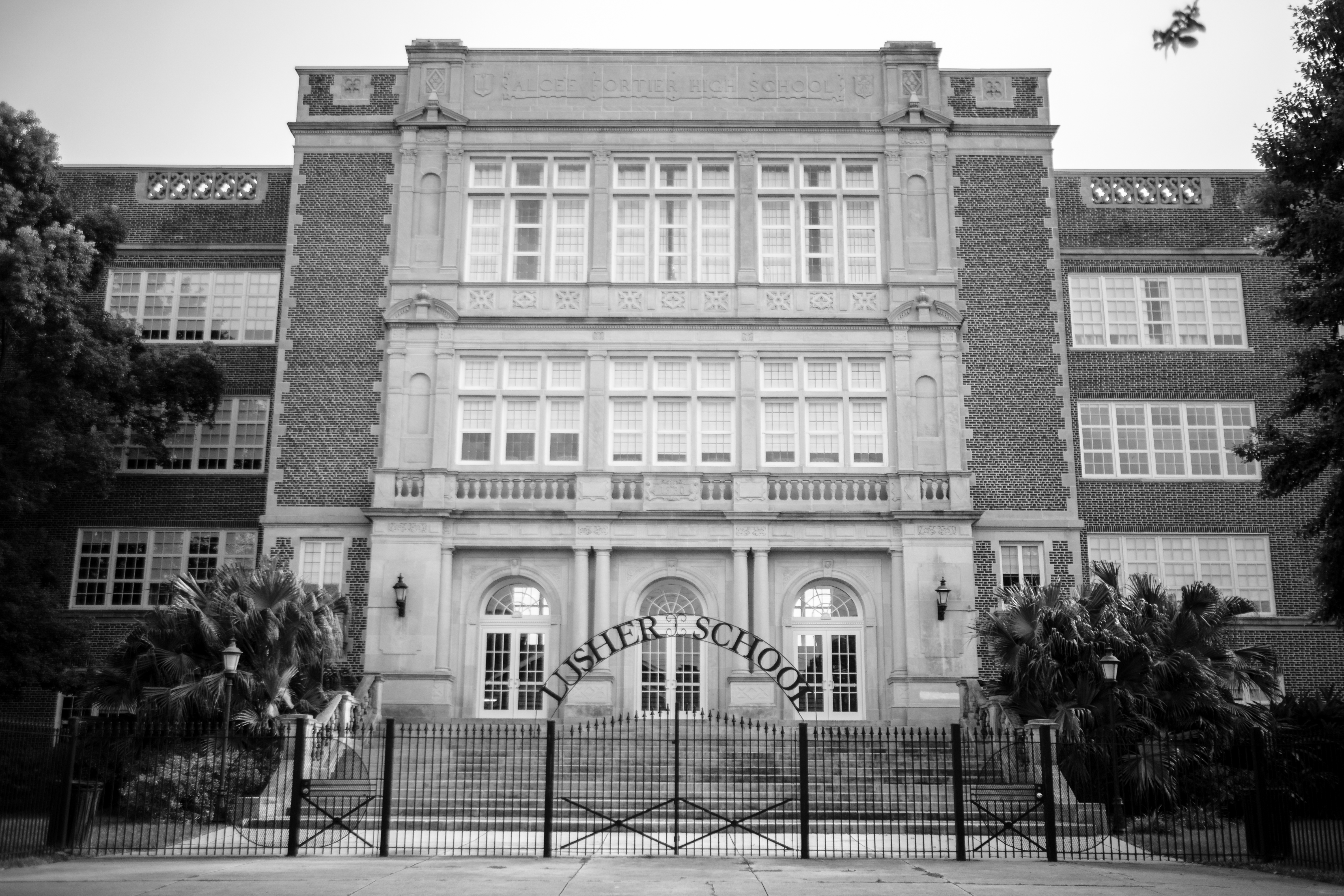 New Orleans. Lusher Charter School secondary school building (former Alcee Fortier High School) on Freret Street at Nashville Avenue.